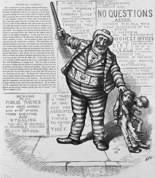 Cartoon of William Tweed by Thomas Nast. Tweed-le-dee and Tilden-dum A Harper's Weekly cartoon depicts Tweed as a police officer saying to two boys, "If all the people want is to have somebody arrested, I'll have you plunderers convicted. You will be allowed to escape, nobody will be hurt, and then Tilden will go to the White House and I to Albany as Governor."